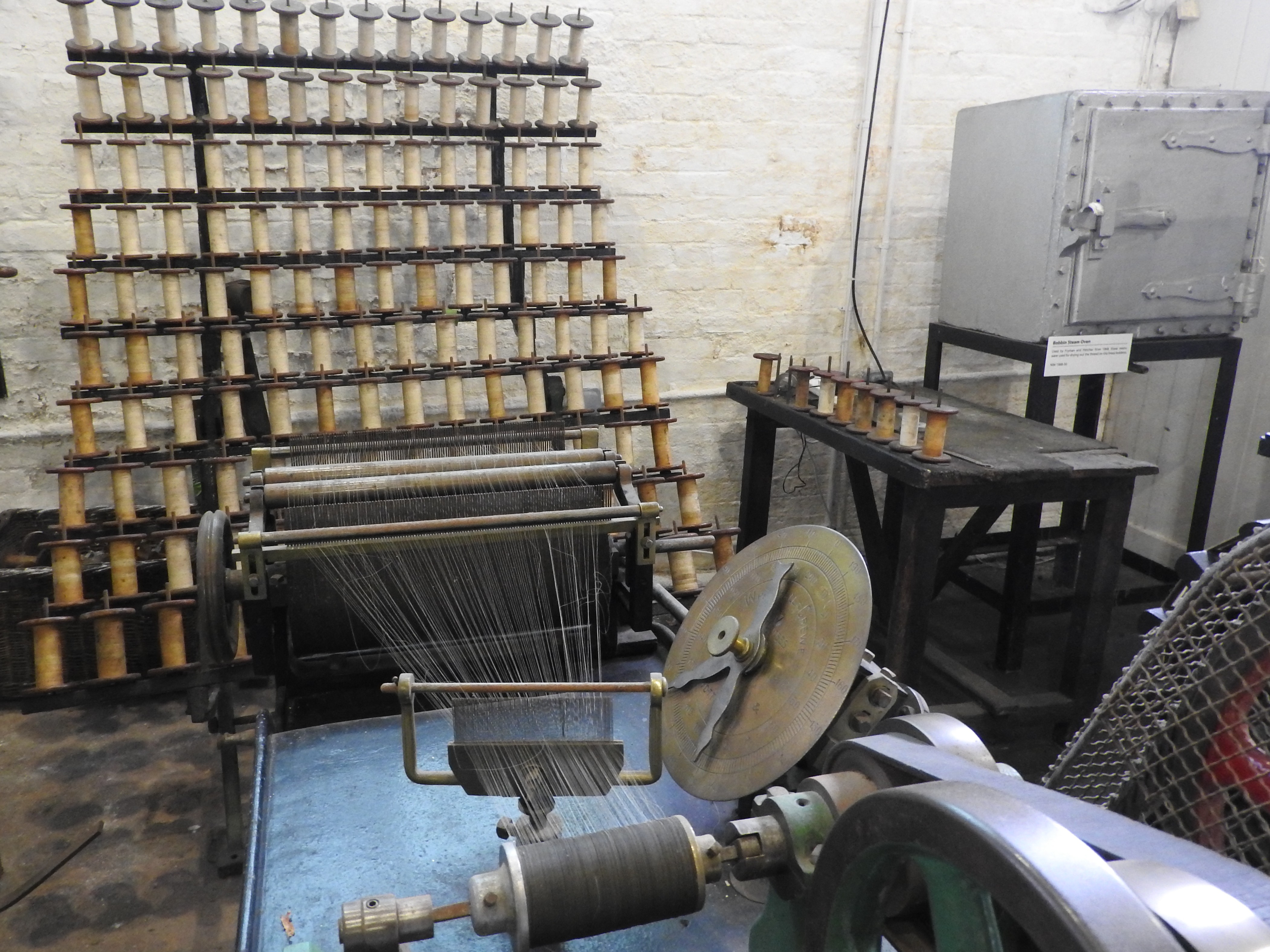 Nottingham Industrial Museum